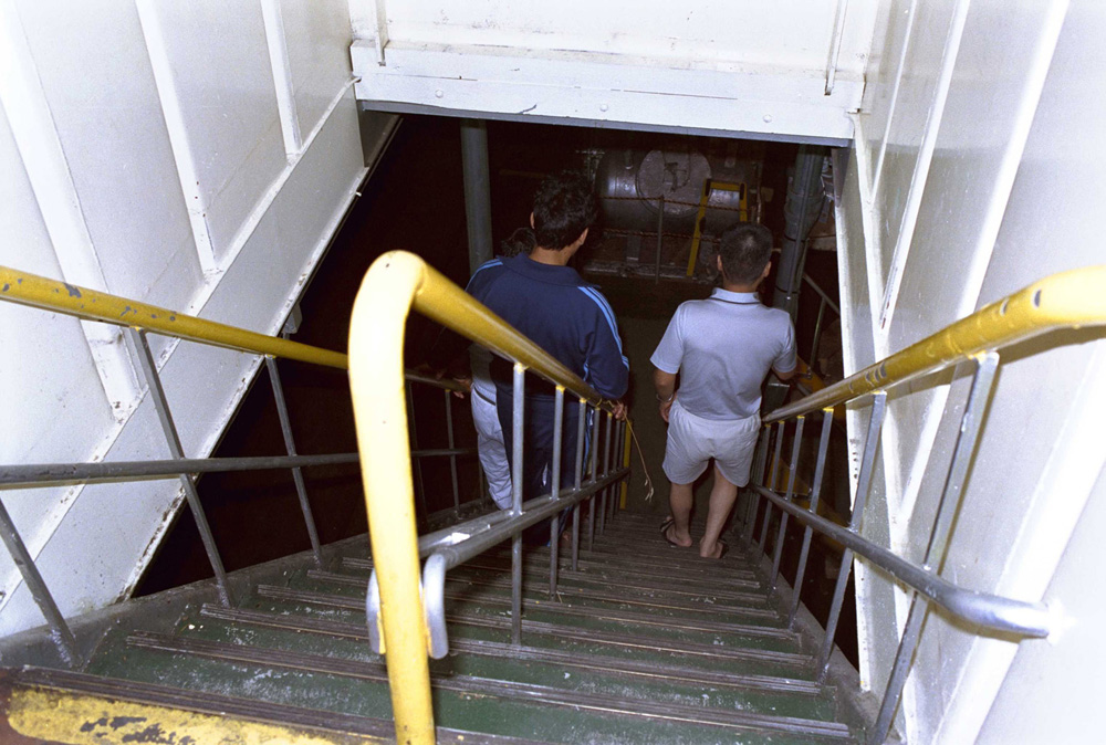 MS TOWADA MARU2 A stairway between Entrance hall and Wagon deck platform This stairway was originally constructed for the transportation of sleeping cars by this ship. However,this plan was not realized. After all this stairway was utilized for passenger get on and get off at extra-Aomori and Hakodate navigation.